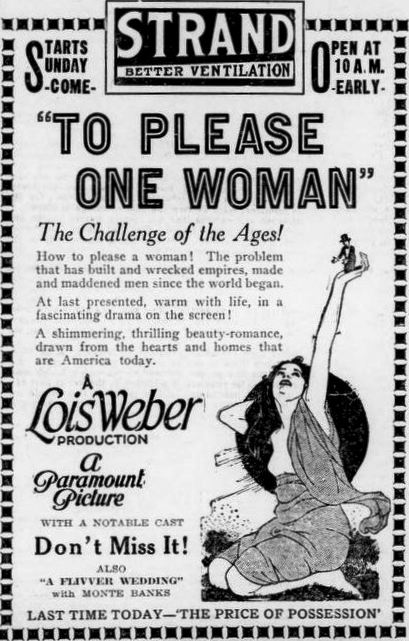 Newspaper advertisement for the American drama film To Please One Woman (1920) with Mona Lisa as the vamp in the film, on page 7 of the April 16, 1921 Duluth Herald.